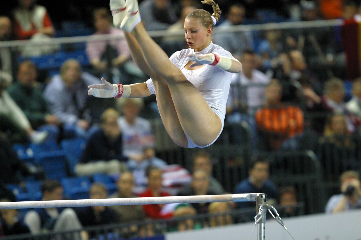 World Artistic Gymnastics Championships Debrecen (Hungary) 22/11/2002